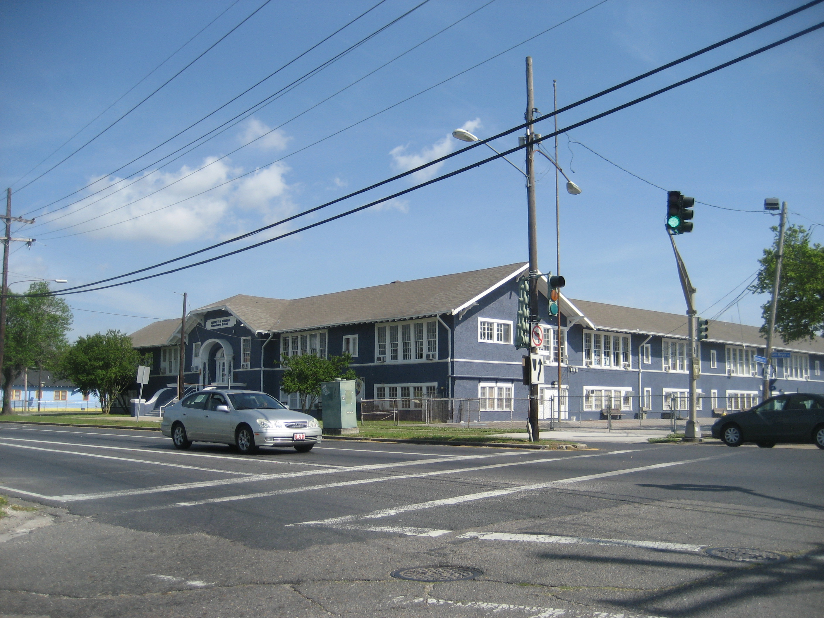 New Orleans. Old Algiers neighborhood. Harriet Tubman Elementary School. In 2016, the building was added to the National Register of Historic Places, under its original name, Adolph Meyer School.